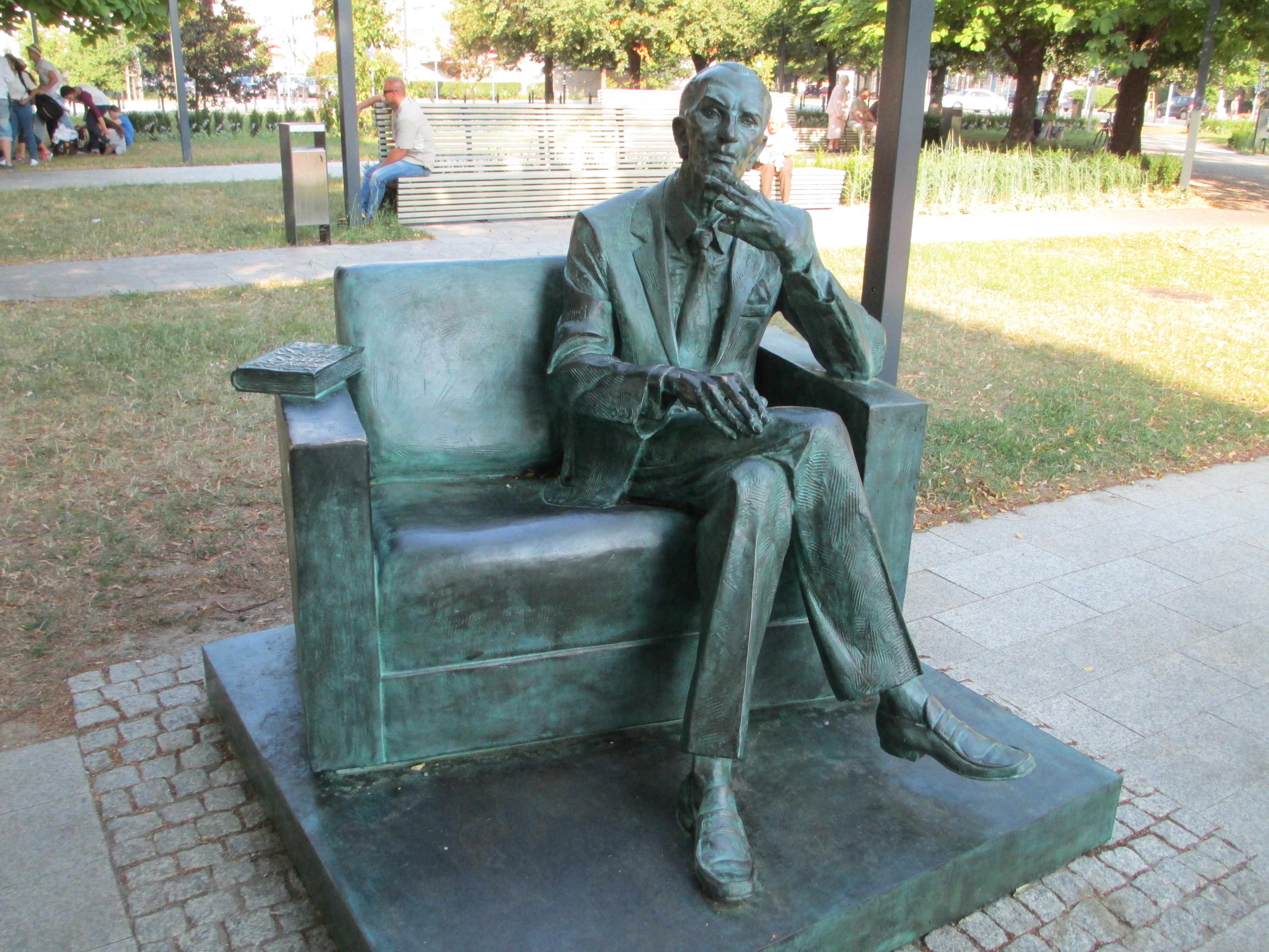 jan karski statue in warsaw by karol badyna (2012)